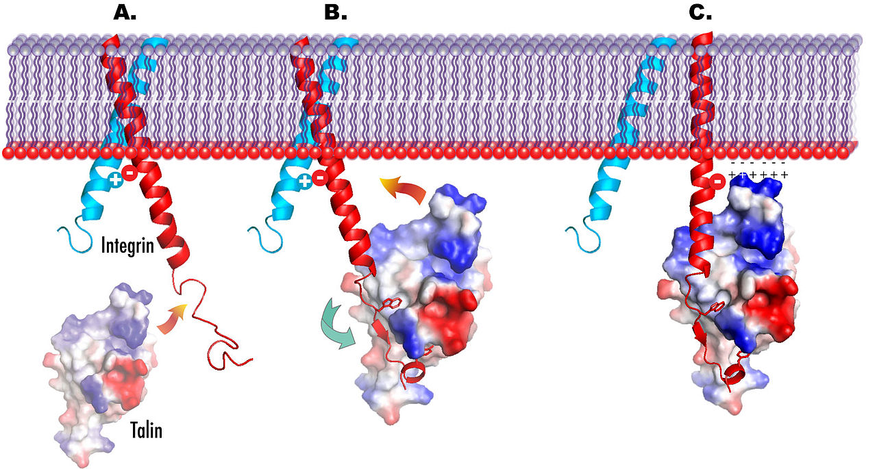 Talin binding Integrin